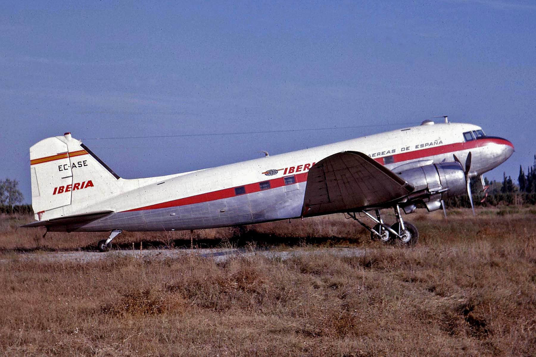 "EC-ASE Douglas C-47A Iberia AGP 23AUG64 I was on a British Eagle Viscount V.701 (G-AMOO) on this trip to Malaga (with a fuel stop both ways in Bordeaux!). The Iberia DC-3 and a few other gems were stored out in the open"